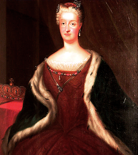 Portrait of Christiane Eberhardine of Brandenburg-Bayreuth (1671-1727)